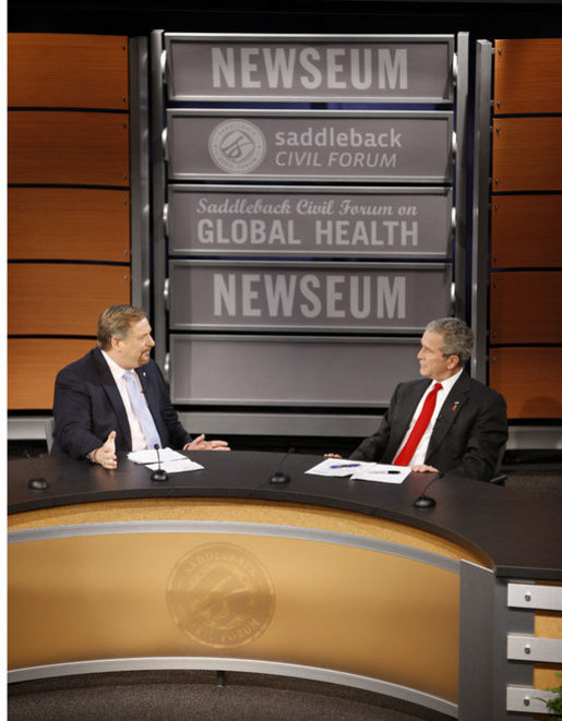 President George W. Bush speaks with Pastor Rick Warren Monday, Dec. 1, 2008, during President Bush's participation at the Saddleback Civil Forum on Global Health at the Newseum in Washington, D.C. White House photo by Eric Draper